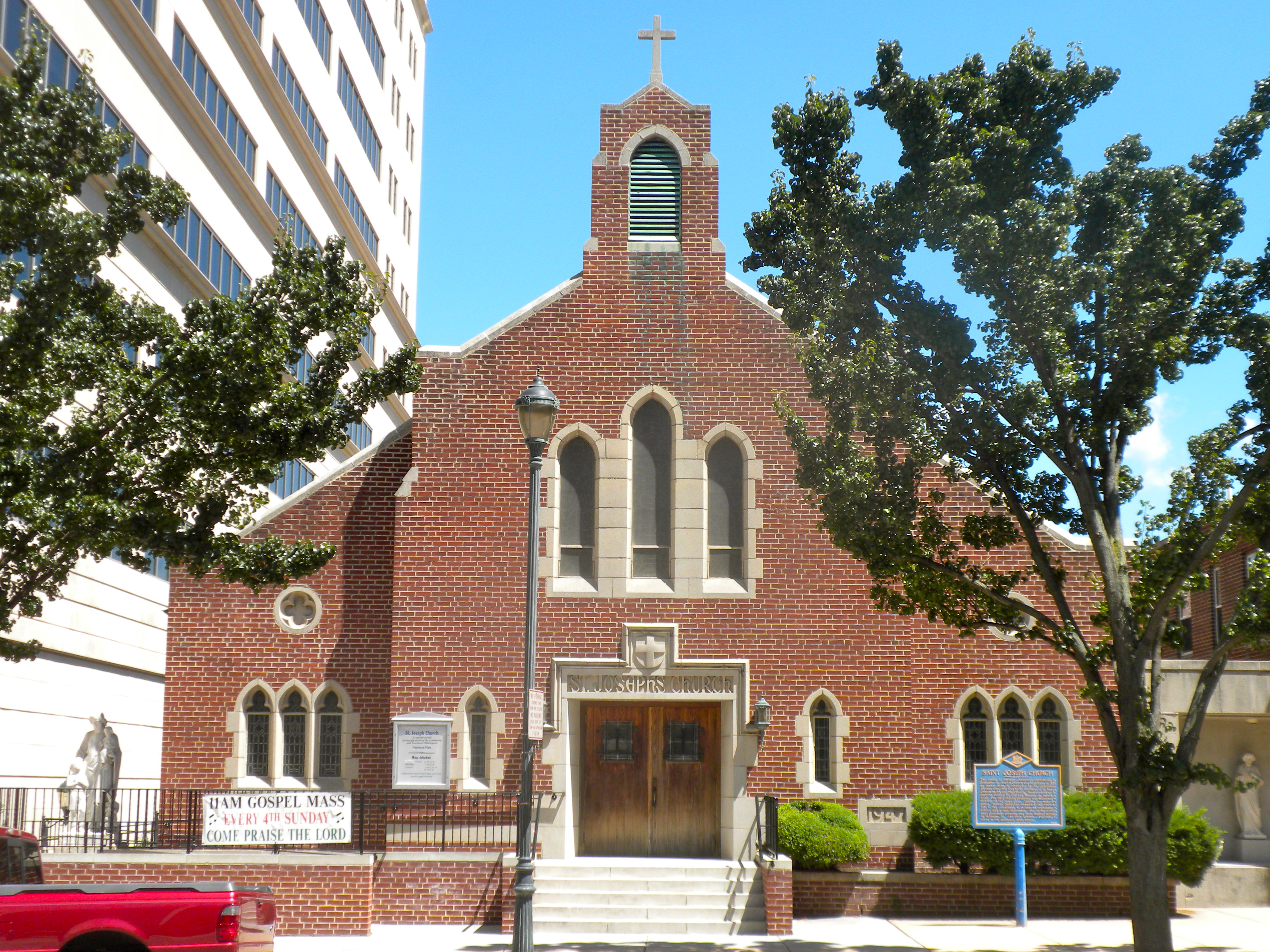 St. Joseph's Catholic Church, located at 1012 N. French St. in Wilmington, Delaware, United States. An adjacent state historical marker names it the "Mother Church" for African-American Catholics in Delaware. It is listed on the National Register of Historic Places.